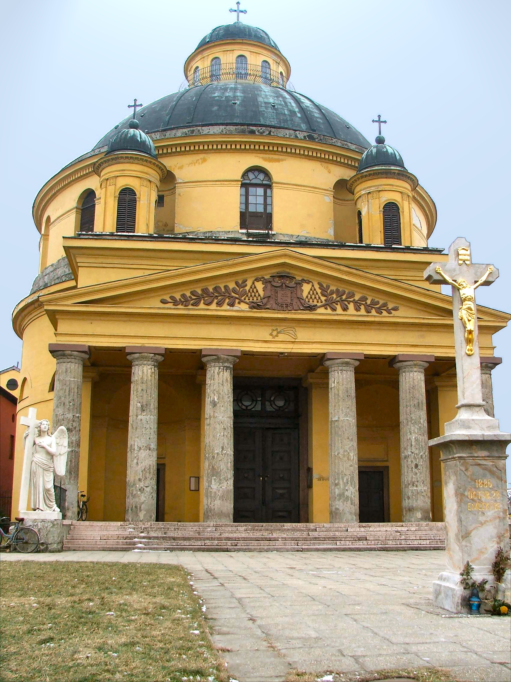 The Szt Anna or "round" church in Esztergom, Hungary.